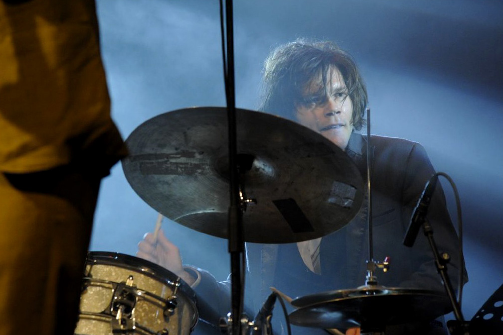 Kevin Shea at moers festival 2009